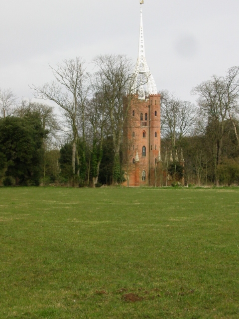 Waterloo Tower in Quex Park, Birchington-on-Sea, Kent, England. This is a red brick bell tower with a ring of 12 bells (tenor 15 cwt) for change ringing. The tower is about 66 feet high. On top of it is a white-painted cast iron spire which is a further 65 feet high.